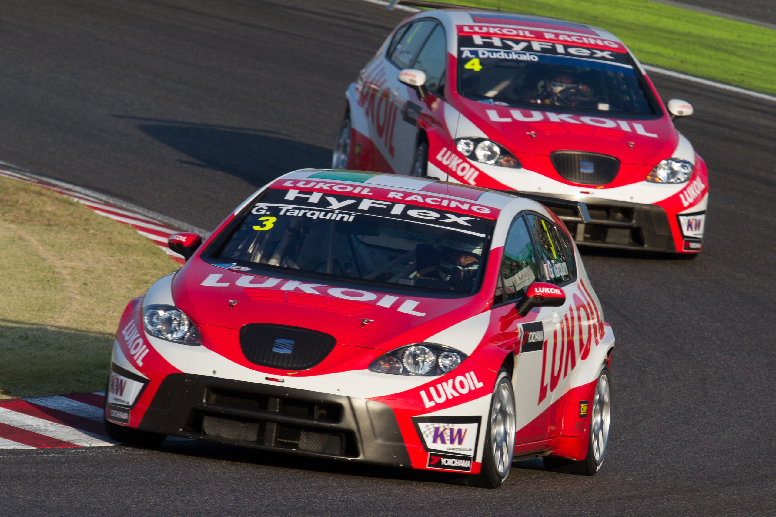 World Touring Car Championship 2012 Race of Japan: Gabriele Tarquini (Lukoil Racing Team) driving the SEAT Leon WTCC